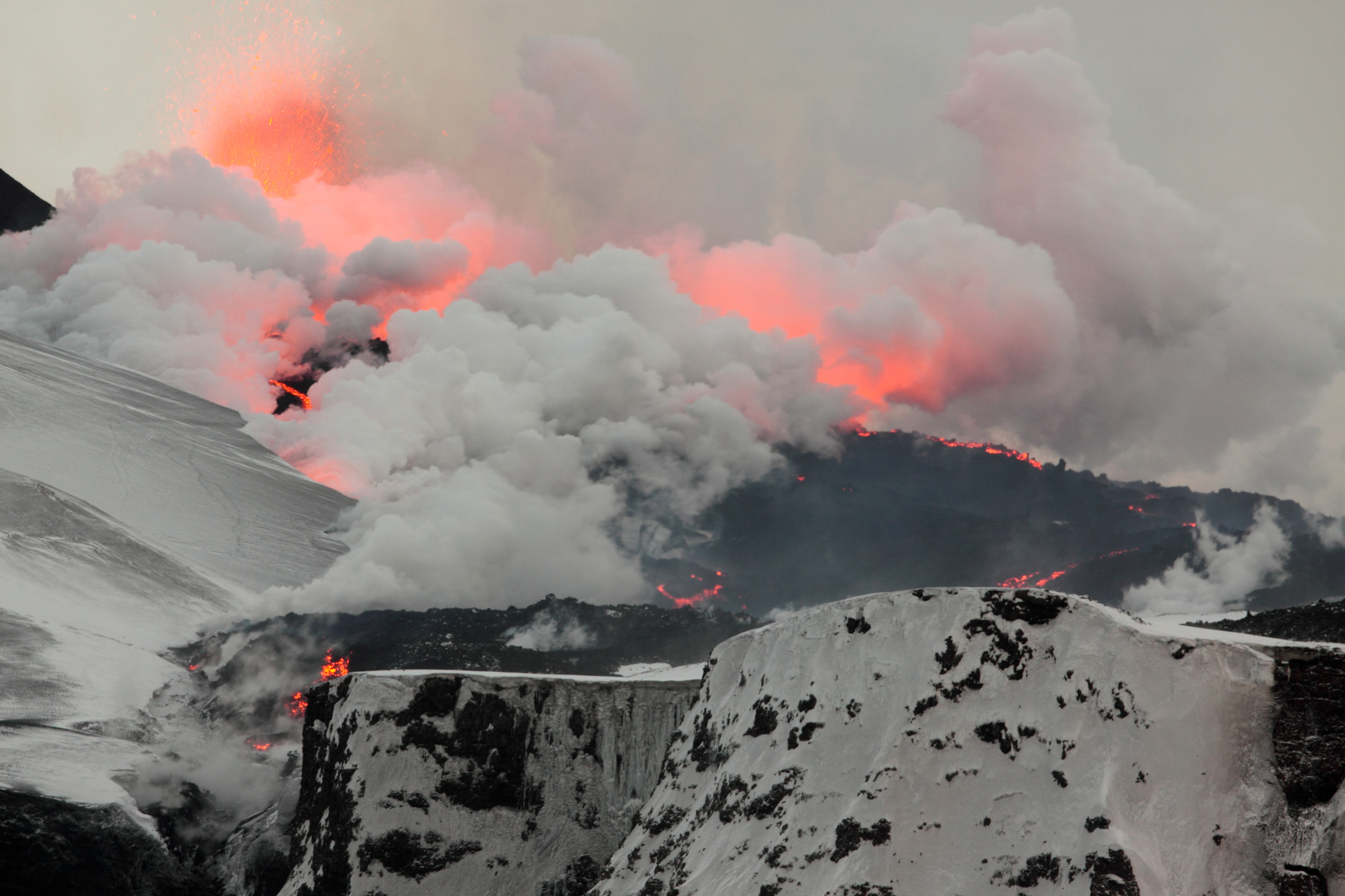 Overview of the 2nd fissure on Fimmvörðuháls, close to Eyjafjallajökull, as the lava flows down towards the north, turning snow into steam.